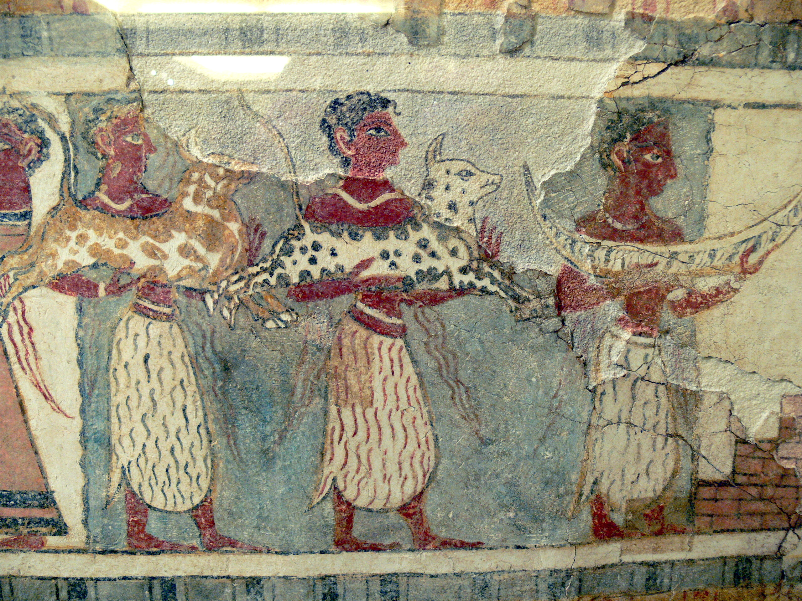 Archaeological Museum of Herakleion. Sarcophagus of Agia Triada ( 1600 - 1450 B.C.) - detail: Men carrying calves and the modell of a boat as sacrifice to the dead.